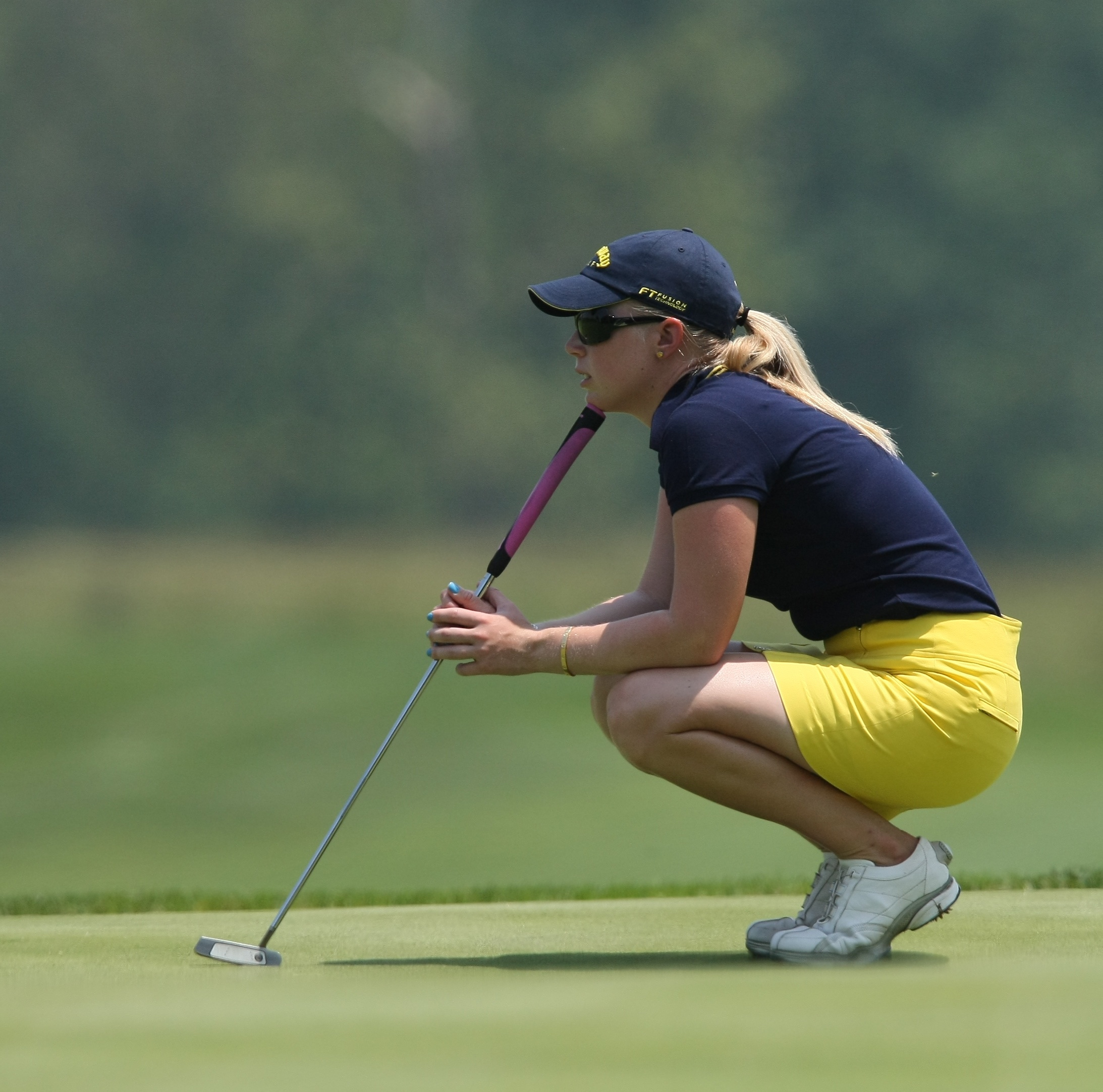 The American golf player Morgan Pressel, 2009.